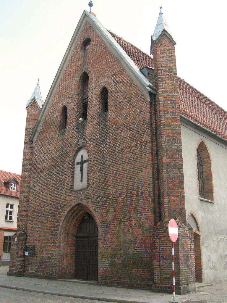 Śrem, Church of the Holy Spirit.